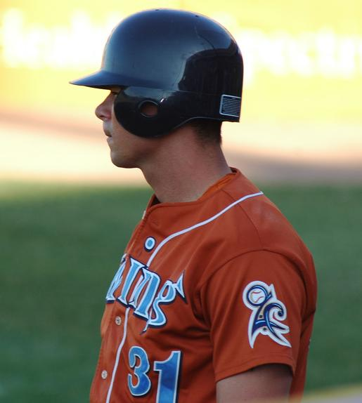 Image of Rick Ankiel playing for the Swing of the Quad cities. Photo by Mwlguide Photo uploaded on flickr Feb 3rd, 2006 09:01, 14 June 2007 . . Agne27 . . 515×574 (27 KB)